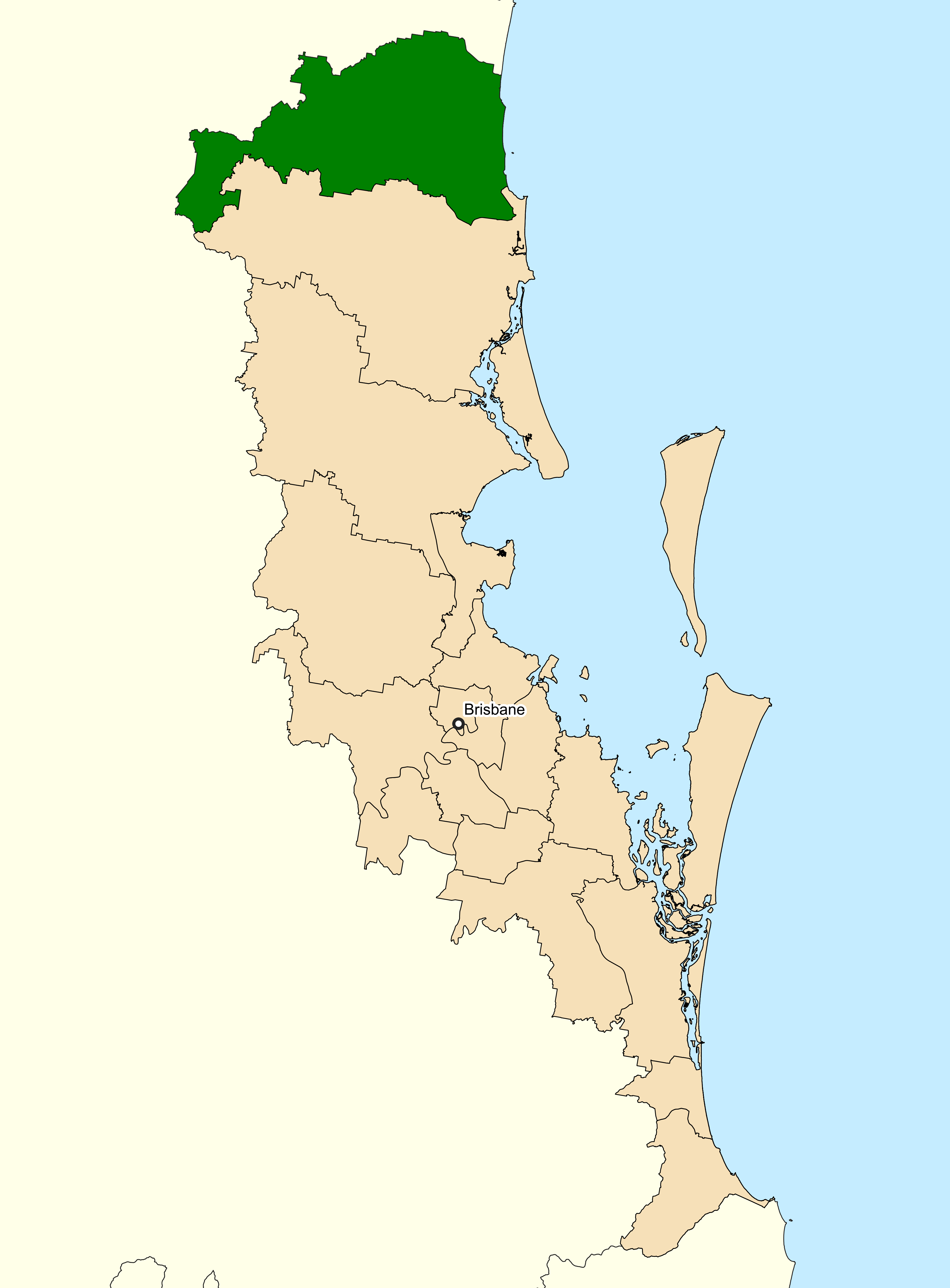 Location of the Australian federal electoral division of Fairfax (dark green) in Greater Brisbane, Queensland as of the 2019 Australian federal election. Incorporates or developed using Administrative Boundaries ©PSMA Australia Limited licensed by the Commonwealth of Australia under Creative Commons Attribution 4.0 International licence (CC BY 4.0).